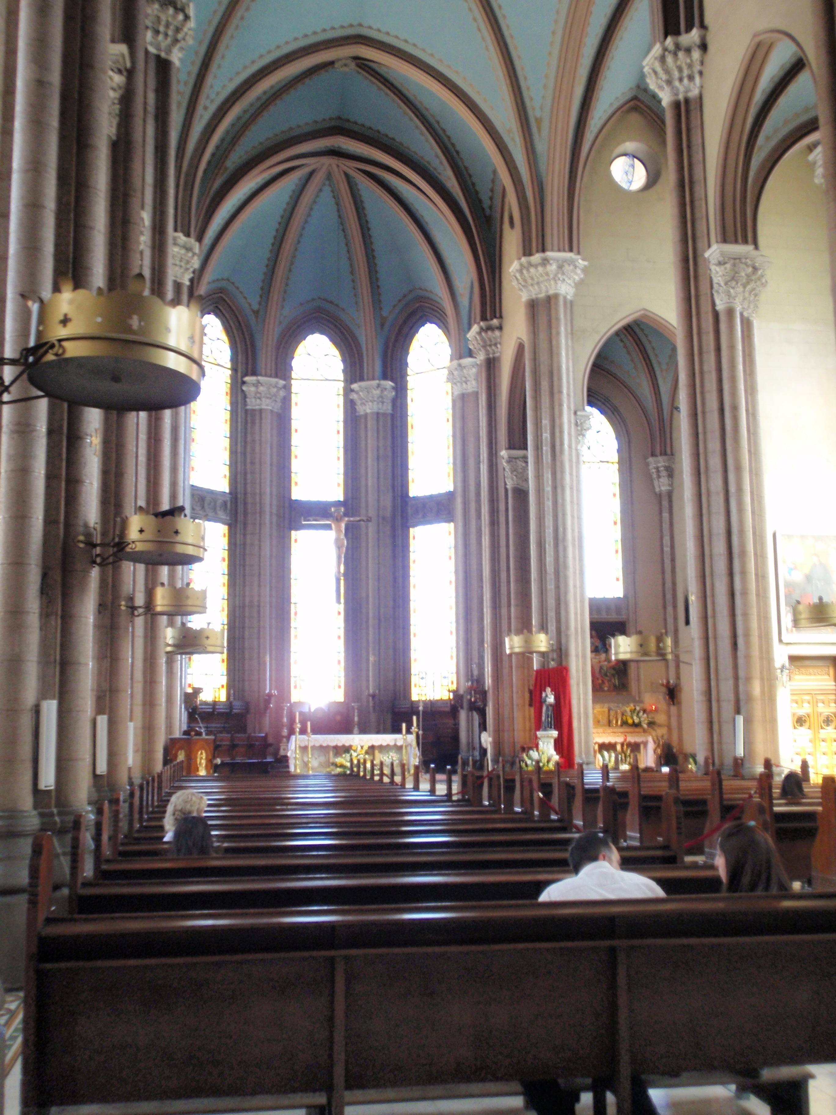 St. Anthony of Padua Church inside